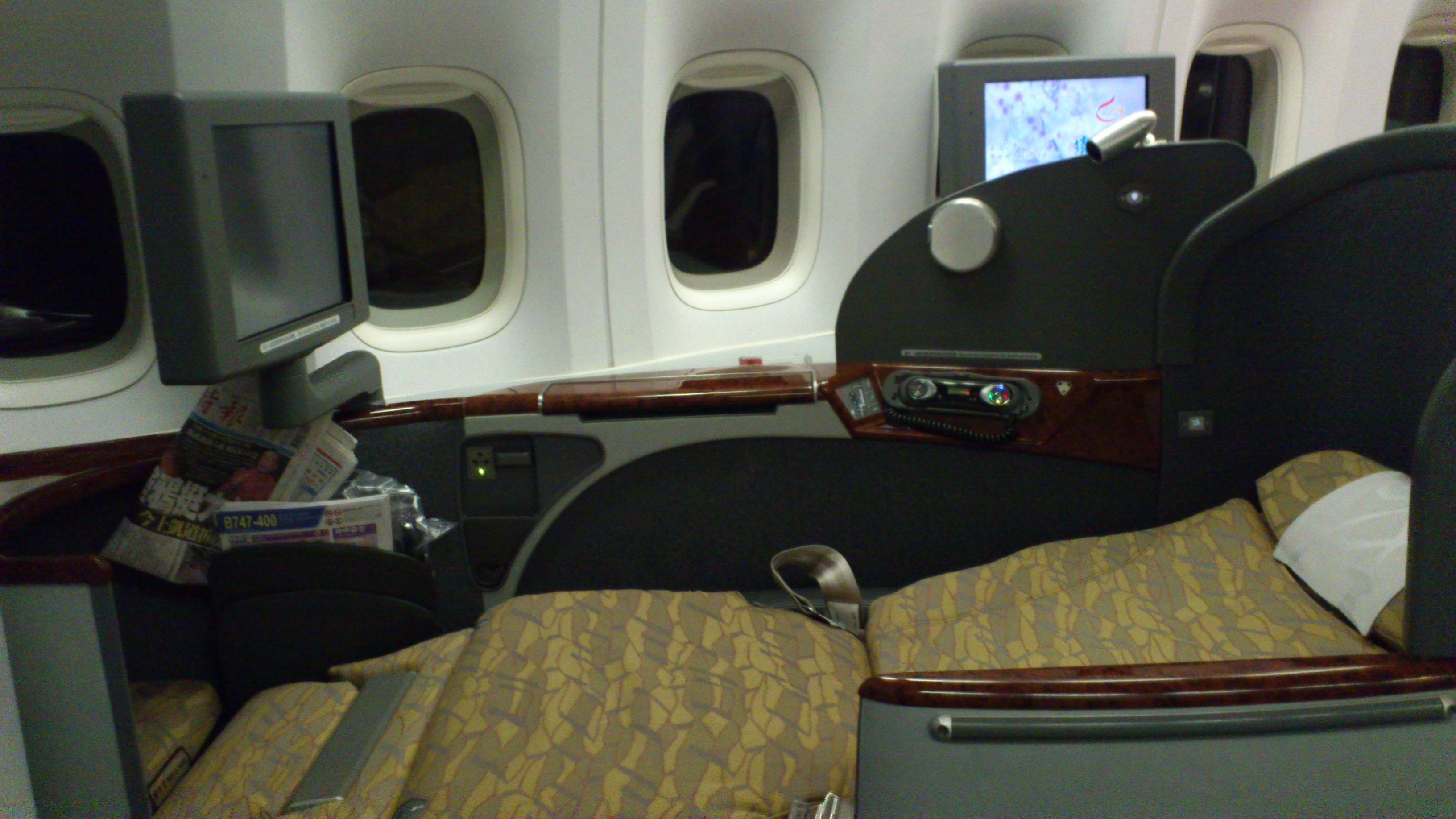 China Airlines First Class Product In Lie-Flat Mode